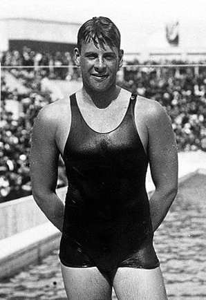 Andrew 'Boy' Charlton, Australia, who won the Swimming 1500 metres freestyle at the 1924 Paris Olympic Games